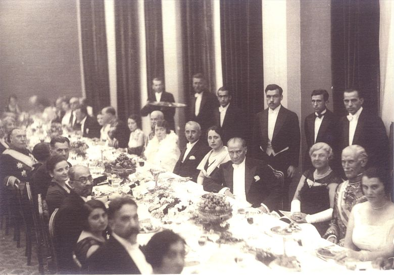 At the reception for the celebration of the 10th anniversary of the October Revolution in which Turkish president Mustafa Kemal Pasha (Atatürk), prime minister Ismet Pasha (İnönü), and Soviet ambassador Yakov Zaharovich Surits participated (the USSR Embassy in Ankara, on November 7, 1927).